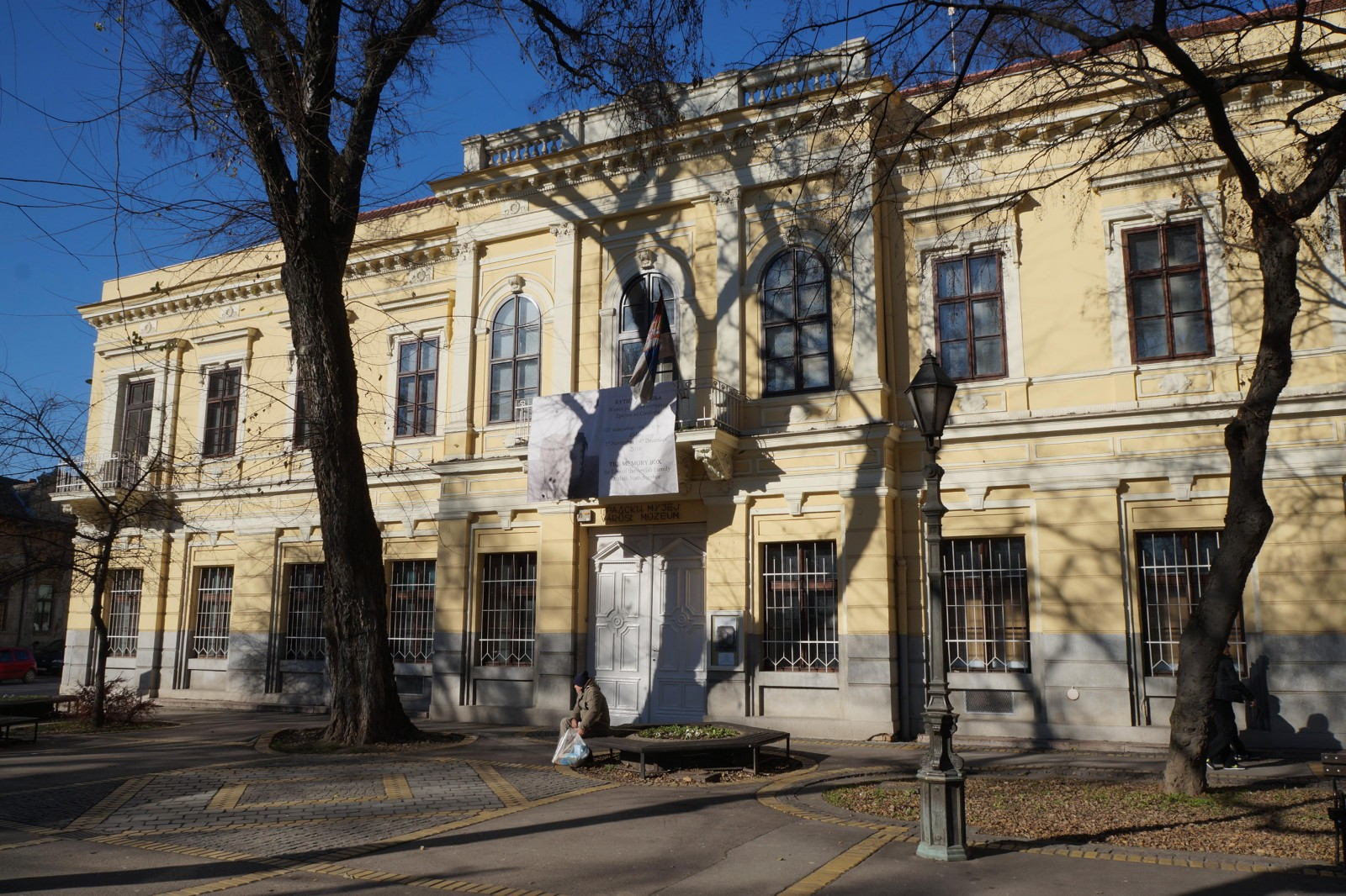 Town Museum of Sombor building